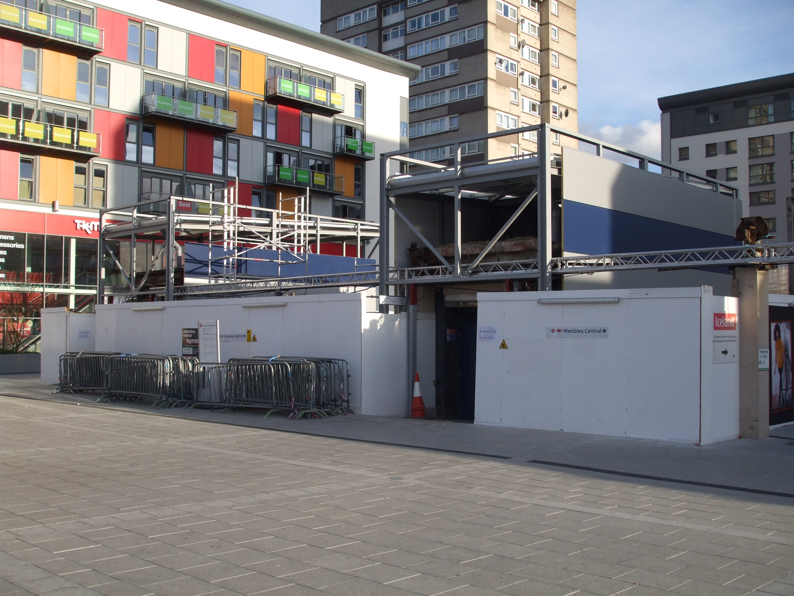 Wembley Central station main line platform entrances, to the east of the main building. Undergoing refurbishment, and tend to be locked until just a few minutes before each hourly service arrives.